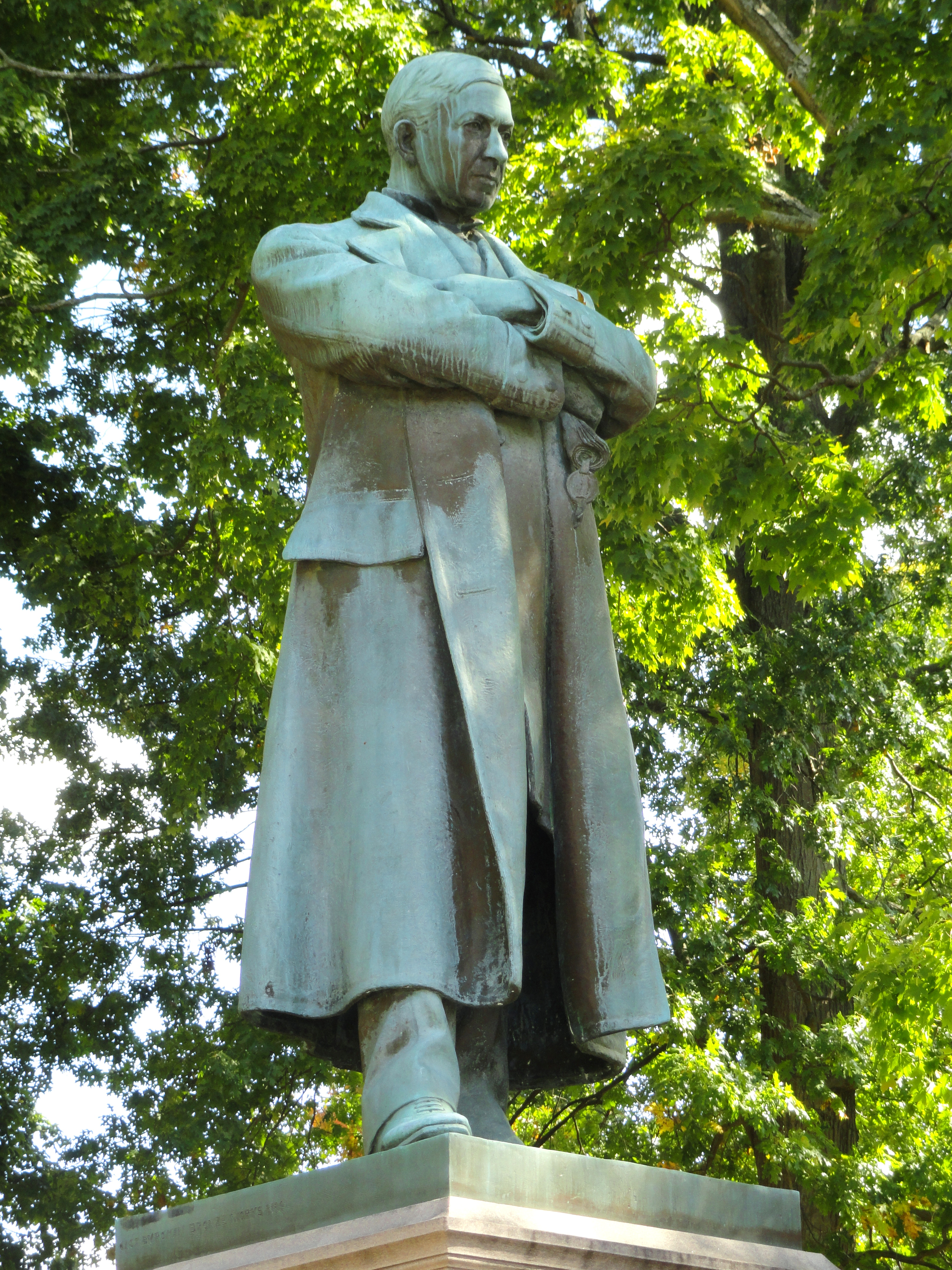 Statue of Governor William Goebel by Charles Henry Niehaus (1855-1935), Frankfort, Kentucky, USA. Dedicated March 11, 1914. This artwork is now in the public domain because the artist died more than 70 years ago. Smithsonian SIRIS Control Number: IAS 75005256. Inscription: C. H. Niehaus Cast by Roman Bronze Works (Inscribed on marble:) GOVERNOR/WILLIAM GOEBEL/THE ABLE AND MOST EFFECTIVE ADVOCATE/AND CHAMPION OF THE PEOPLE'S CAUSE/THEIR LOVED AND LOYAL FRIEND./ON JANUARY 30TH 1900 HE WAS SHOT/DOWN BY AN ASSASSIN FROM THE PRIVATE/OFFICE OF THE THEN SECRETARY OF STATE./BORN JANUARY 4TH, 1856/DIED FEBRUARY 3, 1900/"TELL MY FRIENDS TO BE/BRAVE AND FEARLESS AND LOYAL/TO THE GREAT COMMON PEOPLE."/HIS LAST WORDS. (On right side of base: text by William Jennings Bryan) (On left side of base:) SERVED AS STATE SENATOR/FOURTEEN YEARS/1886 TO 1900/MEMBER OF/CONSTITUTIONAL CONVENTION,/1890 TO 1819/AUTHOR OF/THE ANTI LOTTERY/FRANCHISE TAX LAW/THE PIONEER IN/AMERICAN RAILWAY/REGULATION LAW/THE CHAMPION OF/SCHOOL BOOK LEGISLATION/FELLOW SERVANT LAW/EMPLOYEES LIABILITY LAW (On back of base:) ERECTED BY/THE STATE OF KENTUCKY/IN MEMORY OF/KENTUCKY'S MARTYR GOVERNOR/WILLIAM GOEBEL/WHO DEVOTED AND HAVE/HIS LIFE/IN DEFENSE OF/THE RIGHTS OF THE PEOPLE/'THE QUESTION IS: ARE THE CORPORATIONS/THE MASTERS OR THE SERVANTS OF THE PEOPLE" signed Founder's mark appears.